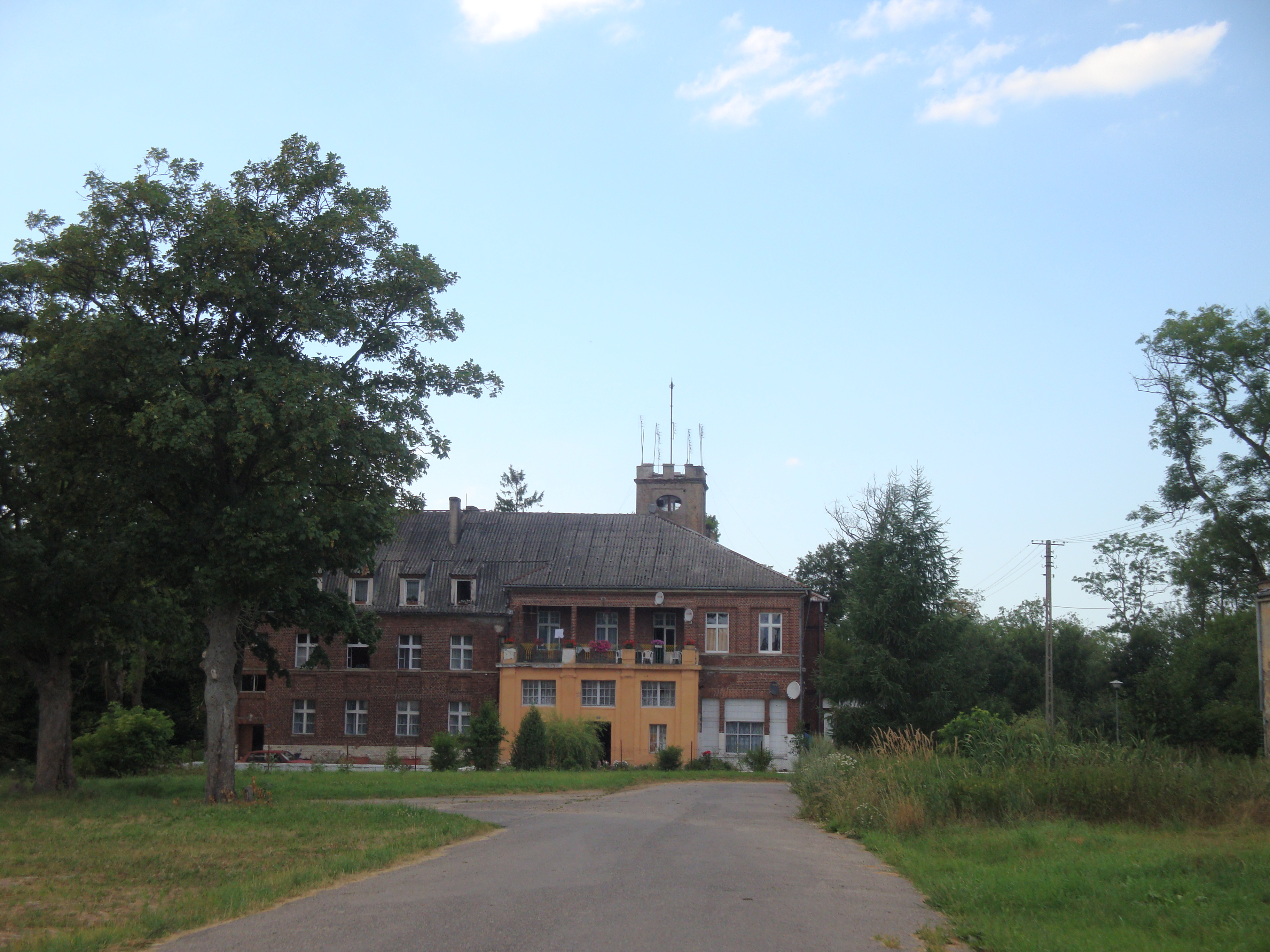 Łojewo-village in Pomeranian Voivodeship, Poland. XIX century palace